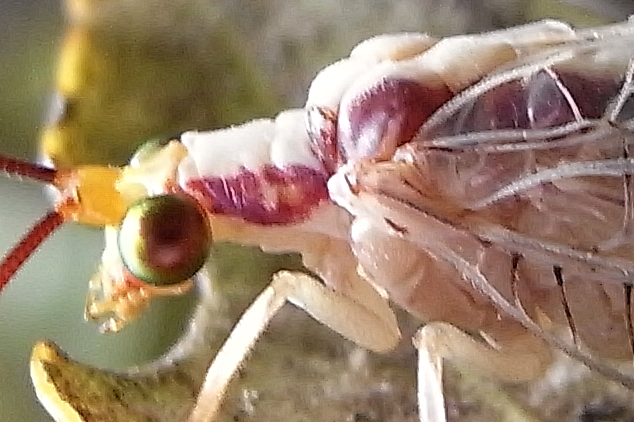 Italochrysa italica